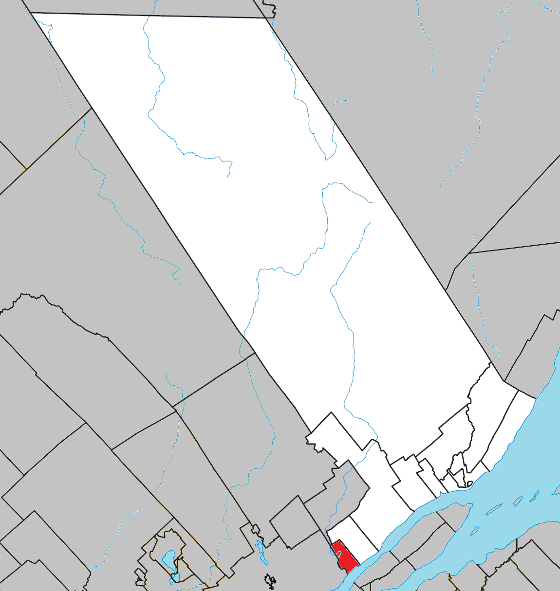 Location of Boischatel, Quebec within La Côte-de-Beaupré Regional County Municipality.